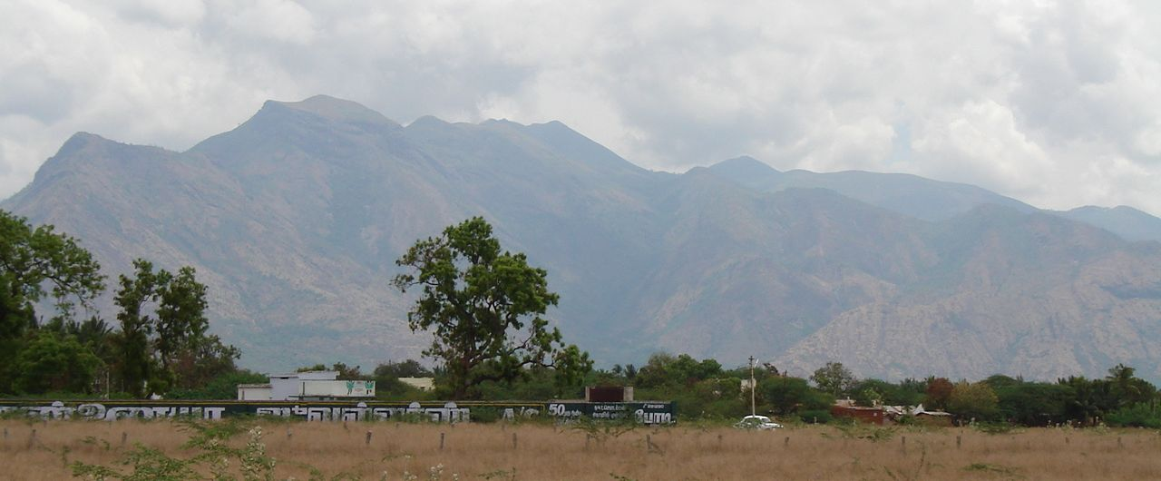 Bodinayakanur